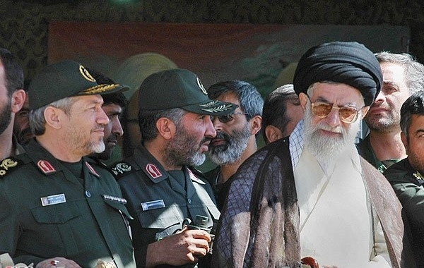 Ahmad kazemi and Yahya Rahim safavi and Ayatollah Ali Khamenei